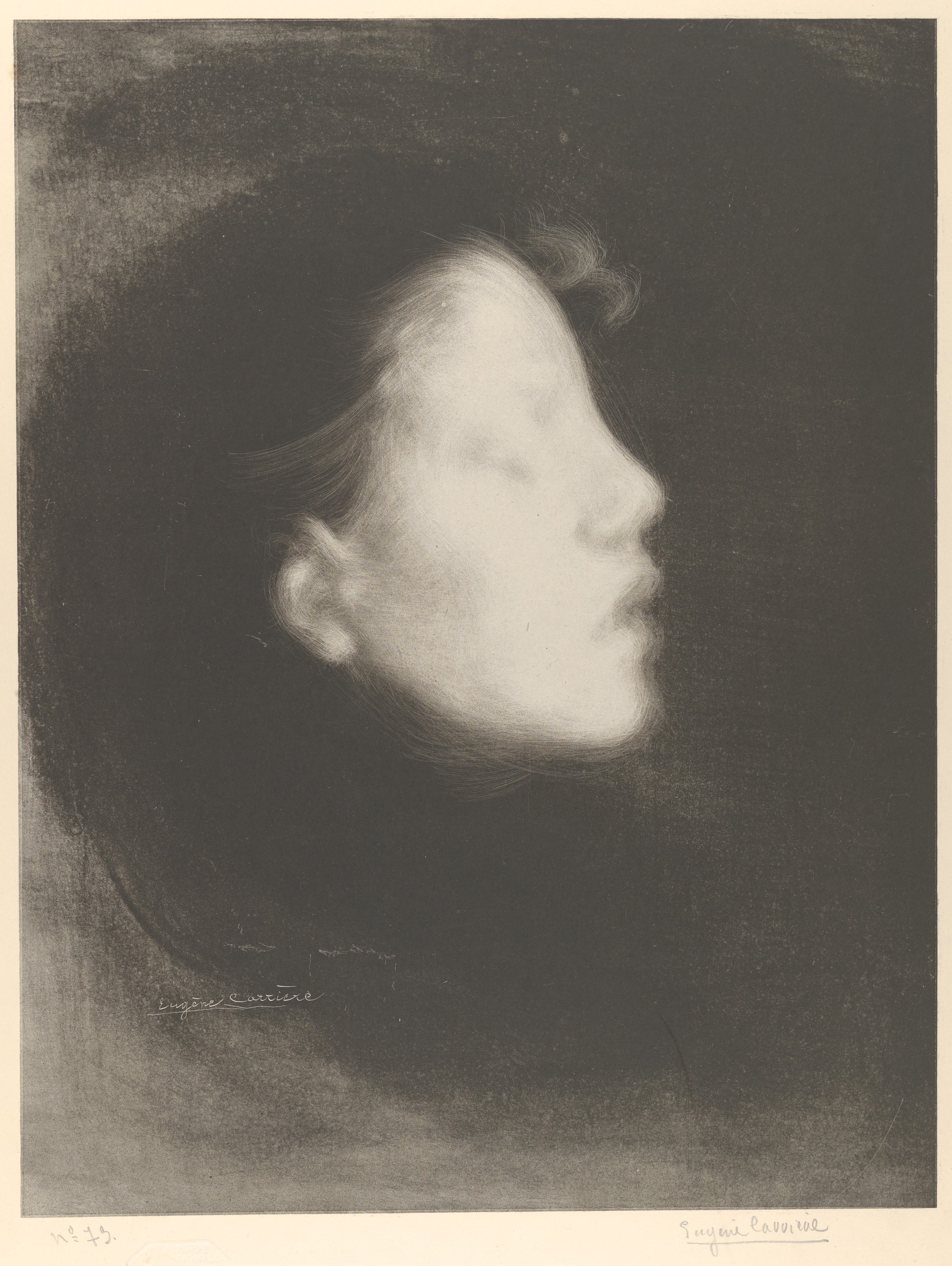 Print; Prints